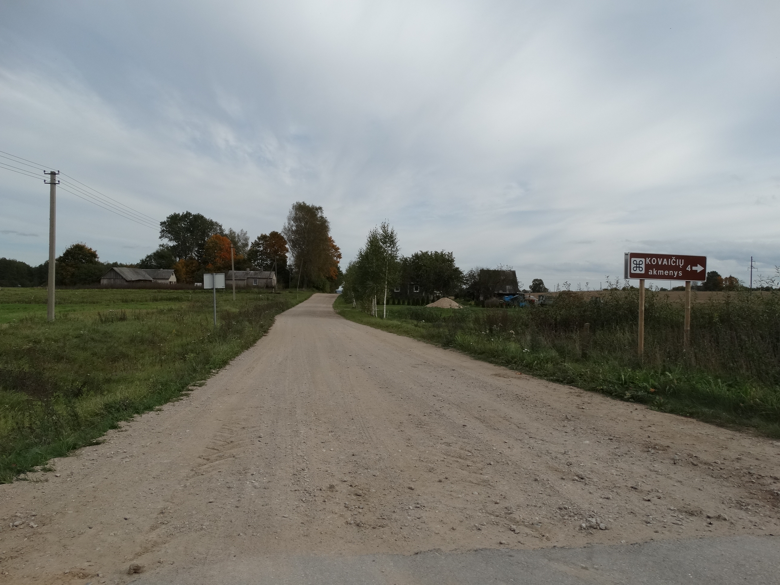 Kairiškės , Kaišiadorys district, Lithuania